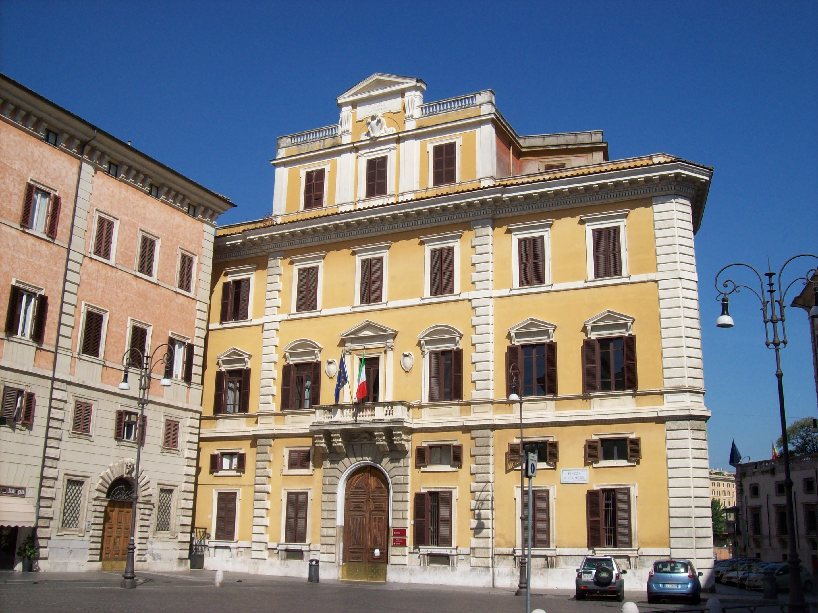 University of Rome "La Sapienza" - Faculty of Architecture at Piazza Borghese